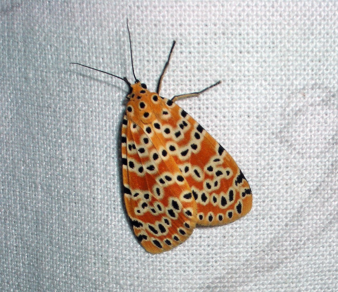 photo of Argina astrea moth with closed wings